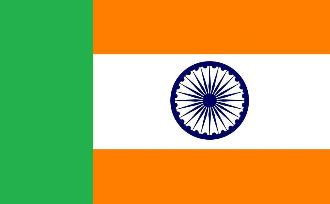 Own work based on "Hinduism : An Introduction", by Dharam Vir Singh. Flag of vegetarianism, vegan, Ashoka Law, for the Abolition of meat (in India, in all the world). The colours are saffron, white and green, like the flag of India, the country of Lord Ashoka. The navy blue wheel is called Ashoka's Dharma Chakra, with 24 spokes (after Ashoka, the Great). Each spoke depicts one hour of the day, portraying the prevalence of righteousness all 24 hours of it. Ashoka was a devotee of ahimsa (nonviolence), love, truth, tolerance and vegetarianism (and ahimsa is vegetarianism). Ashoka is remembered in history as a philanthropic administrator. In the history of India, Ashoka is referred to as Samraat Chakravartin Ashoka - the Emperor of Emperors Ashoka. The white band represents peace and truth.The green band represents the happyness, prosperity, chivalry and protection of abundant natural wealth, while the two saffron bands represent disinterestedness, courage and sacrifice. There are two saffron bands because the disinterestedness is important for the Human AND the Animal too : respect is for the animals and humans together : if you don't respect animals, you don't respect yourself. The french poet, Alphonse de Lamartine, said : "We haven't a heart for human beings, and a heart for animals - We have a heart or not " The flag was designed by Dino Bishnoi (Dino Castelbou), a french hindu artist and vegetarian activist.